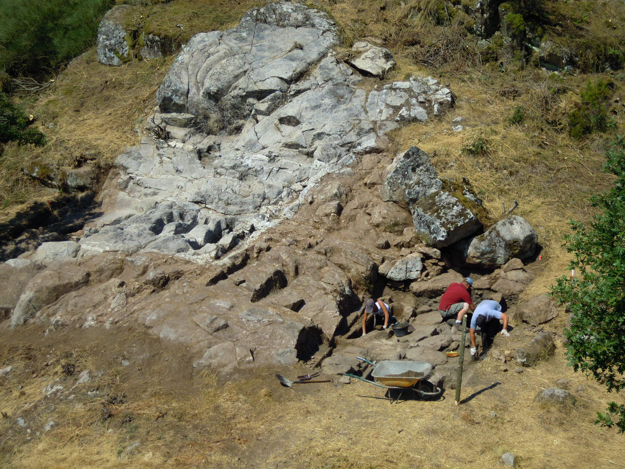 General view from San Victor de Barxacova necropolis (Parada de Sil, Galicia, Spain) while the excavation process.